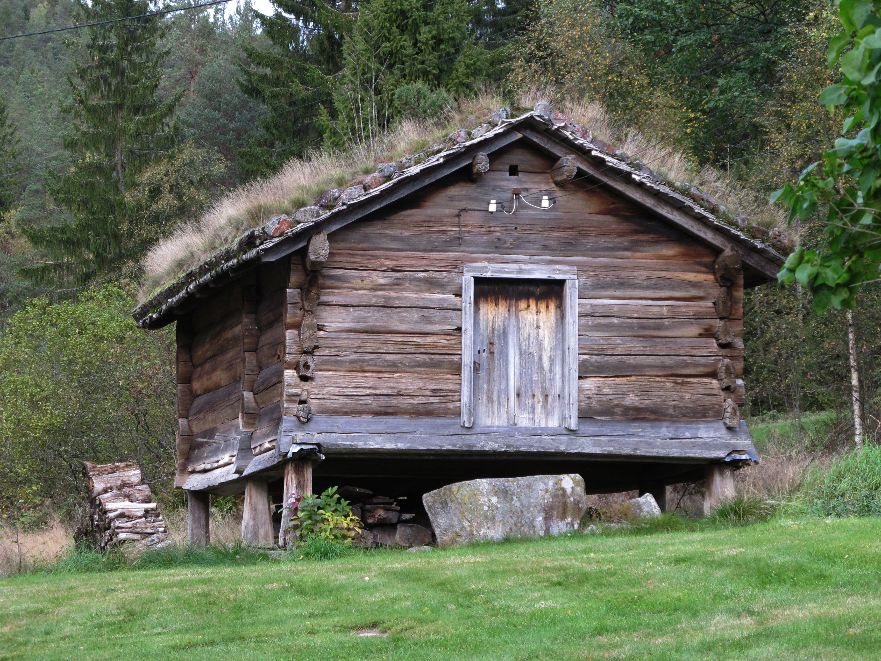 Stolpehus